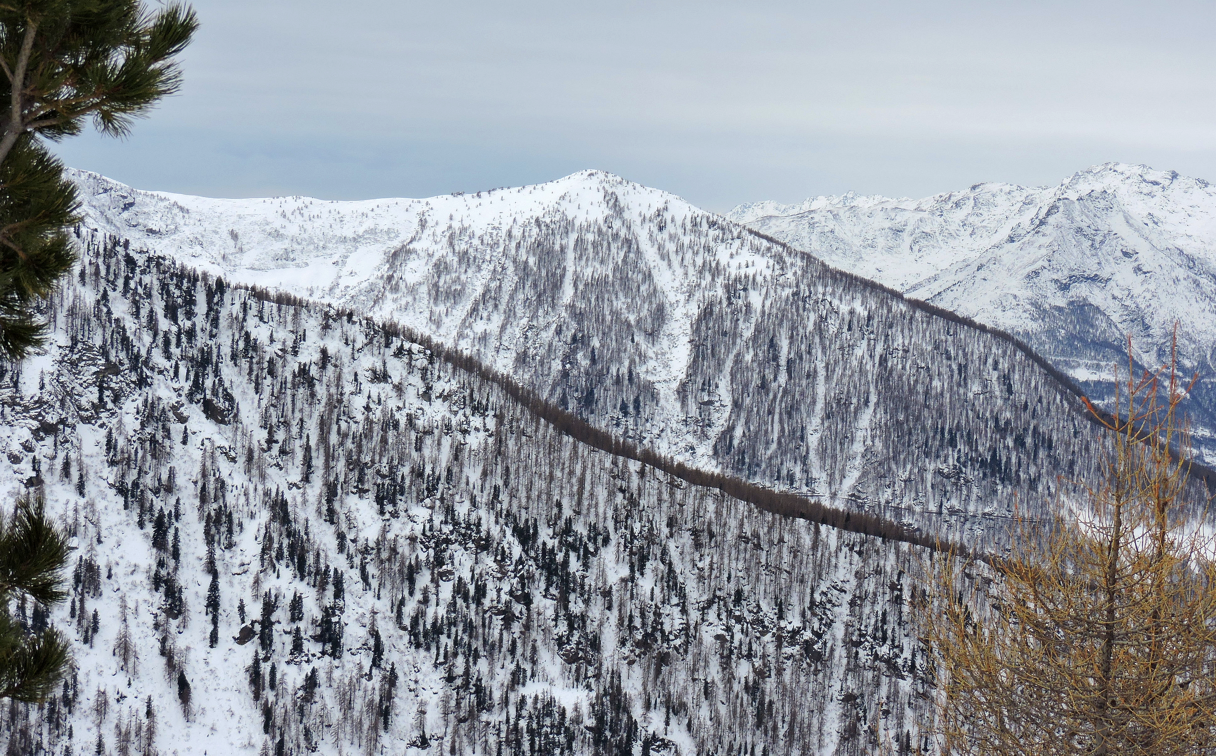 Bec di Nona from Mont-Leretta (Italy)